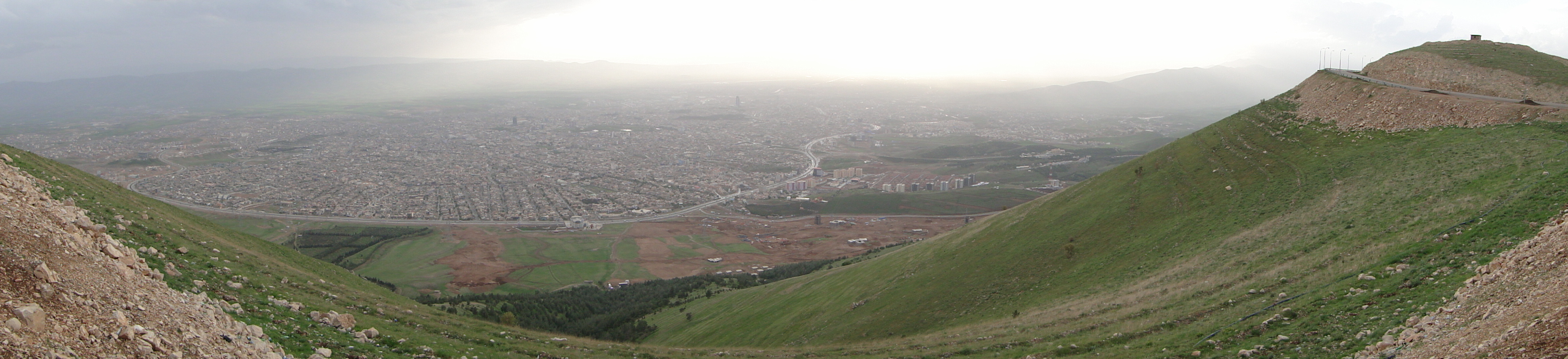 Panorama over Sulaimani-Suleimaniya - Kurdistan - Iraq